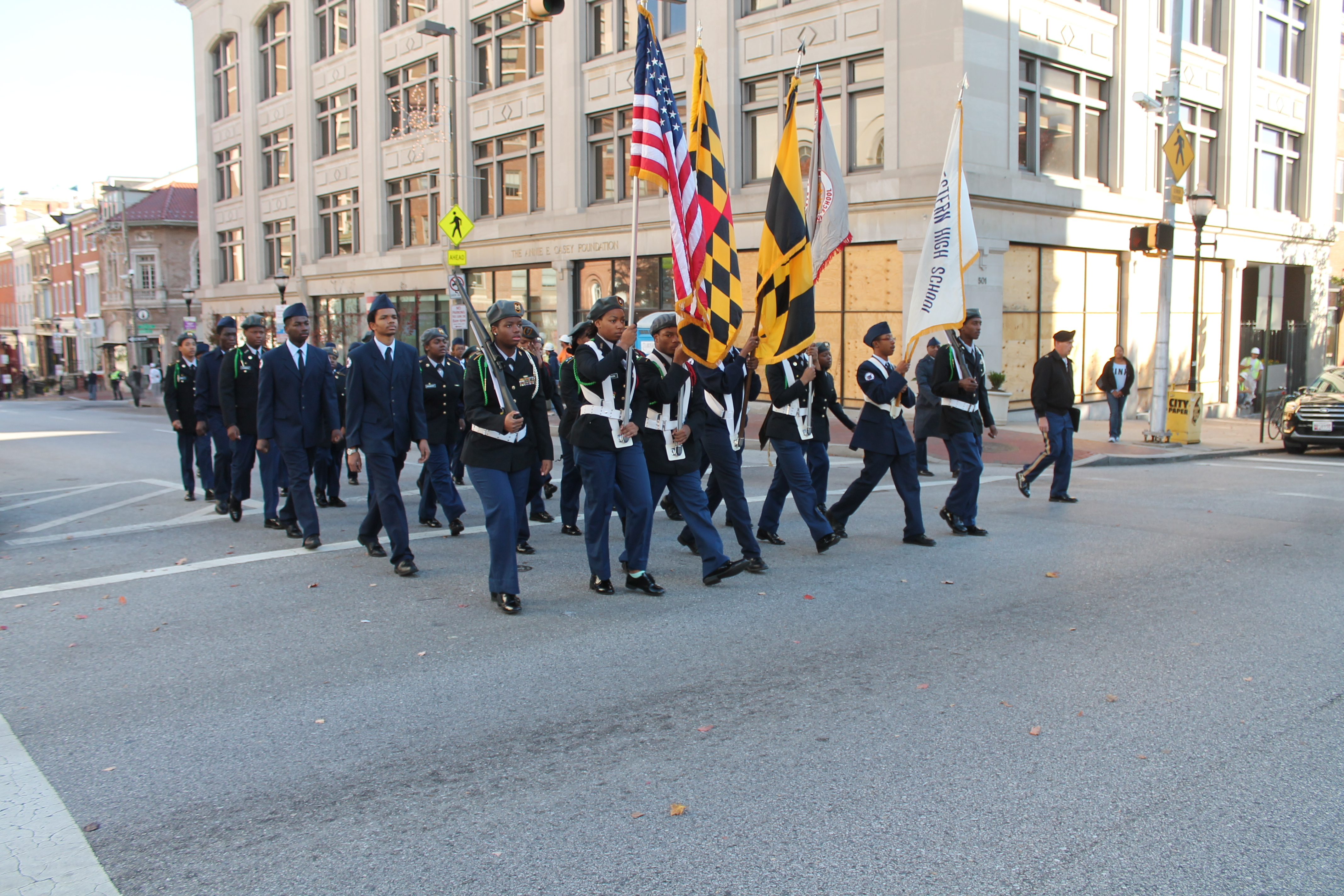 Veterans Day Parade on North Charles at Franklin Street in Baltimore, Maryland on Friday morning, 11 November 2016 by Elvert Barnes Photography